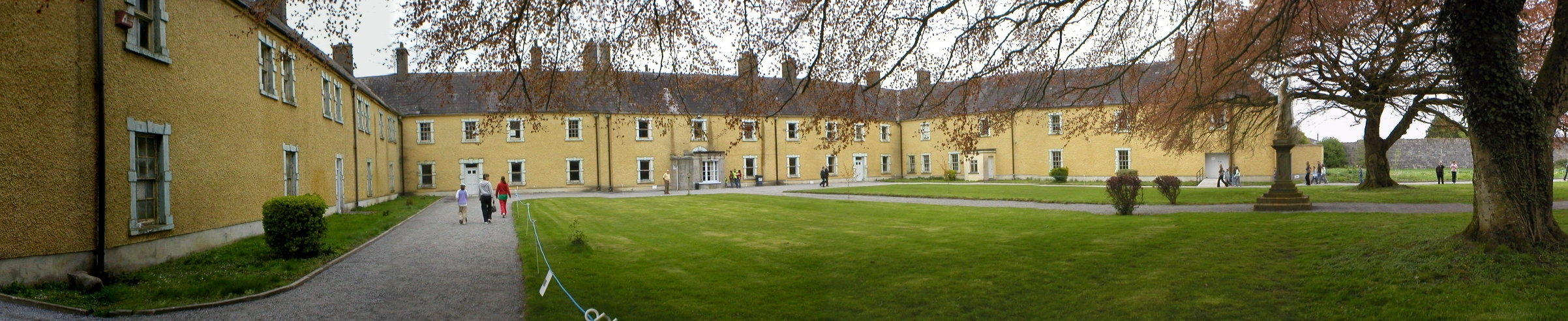 original digital image